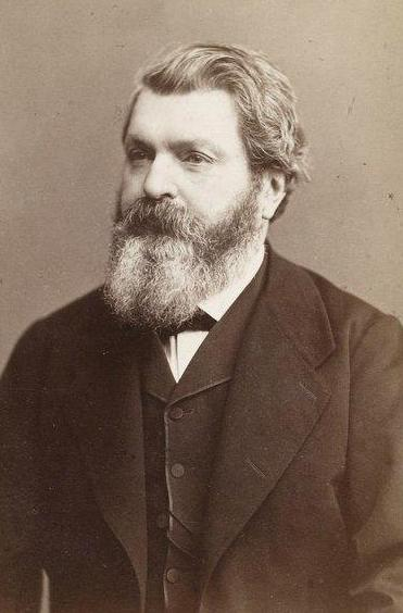 Ludwig Karl Schwarda's portrait